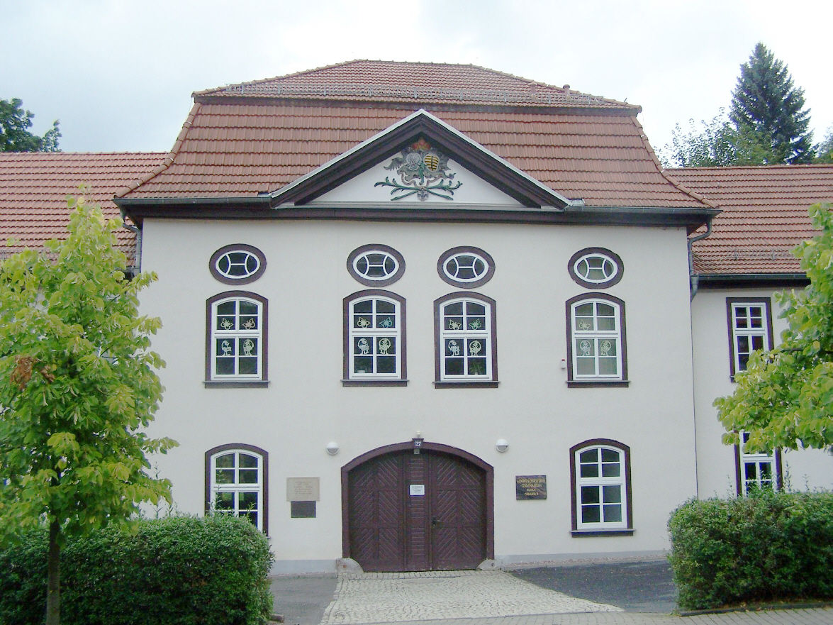 The forest school building in Ruhla.